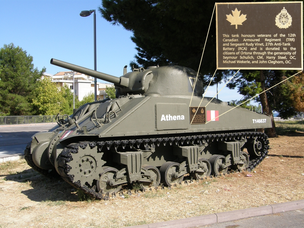 Before 2006 the tank was exhibited in the Overloon War Museum as USA-3033401 COOKIE